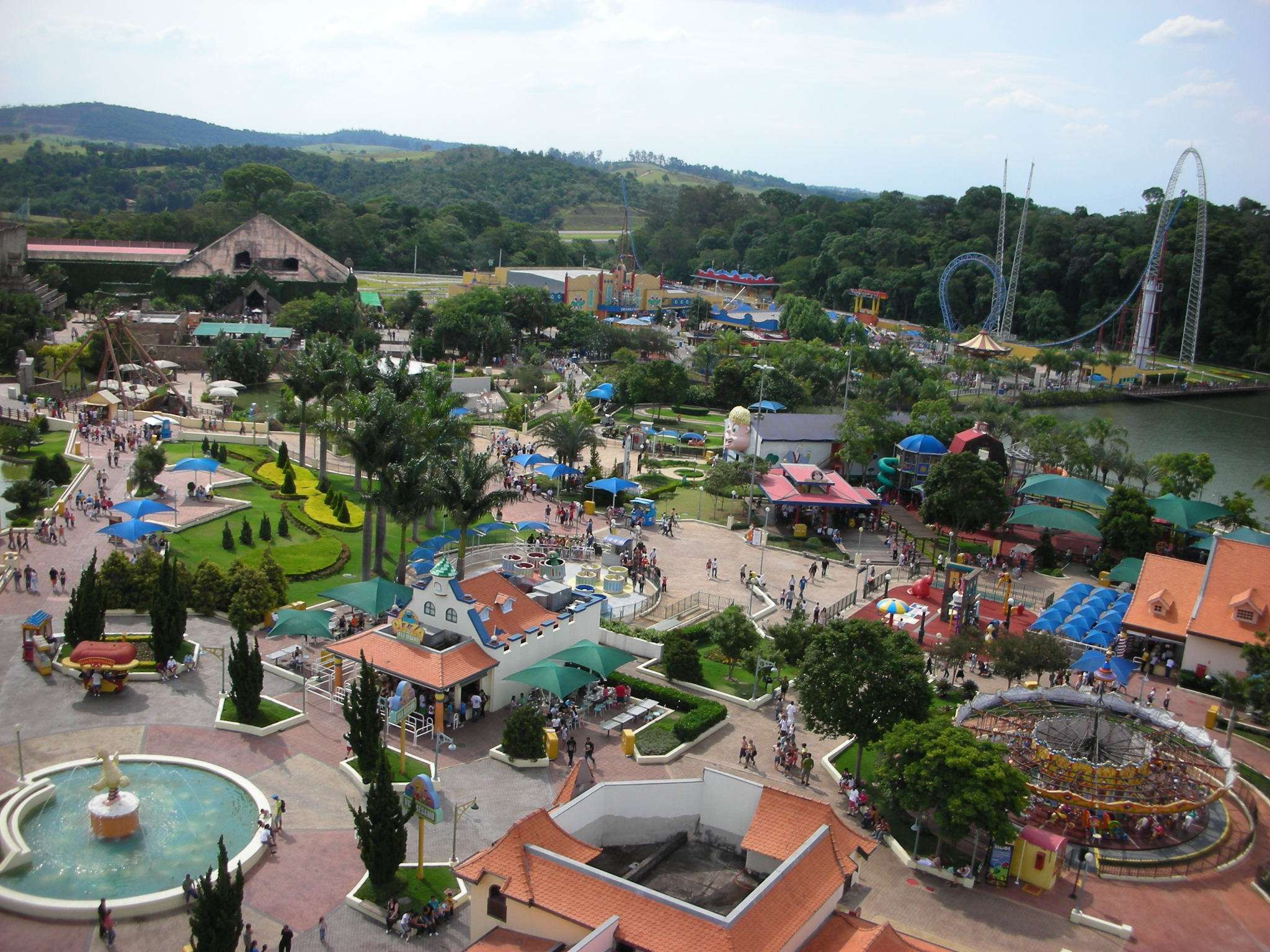 Hopi Hari Theme Park, near Campinas, Brazil